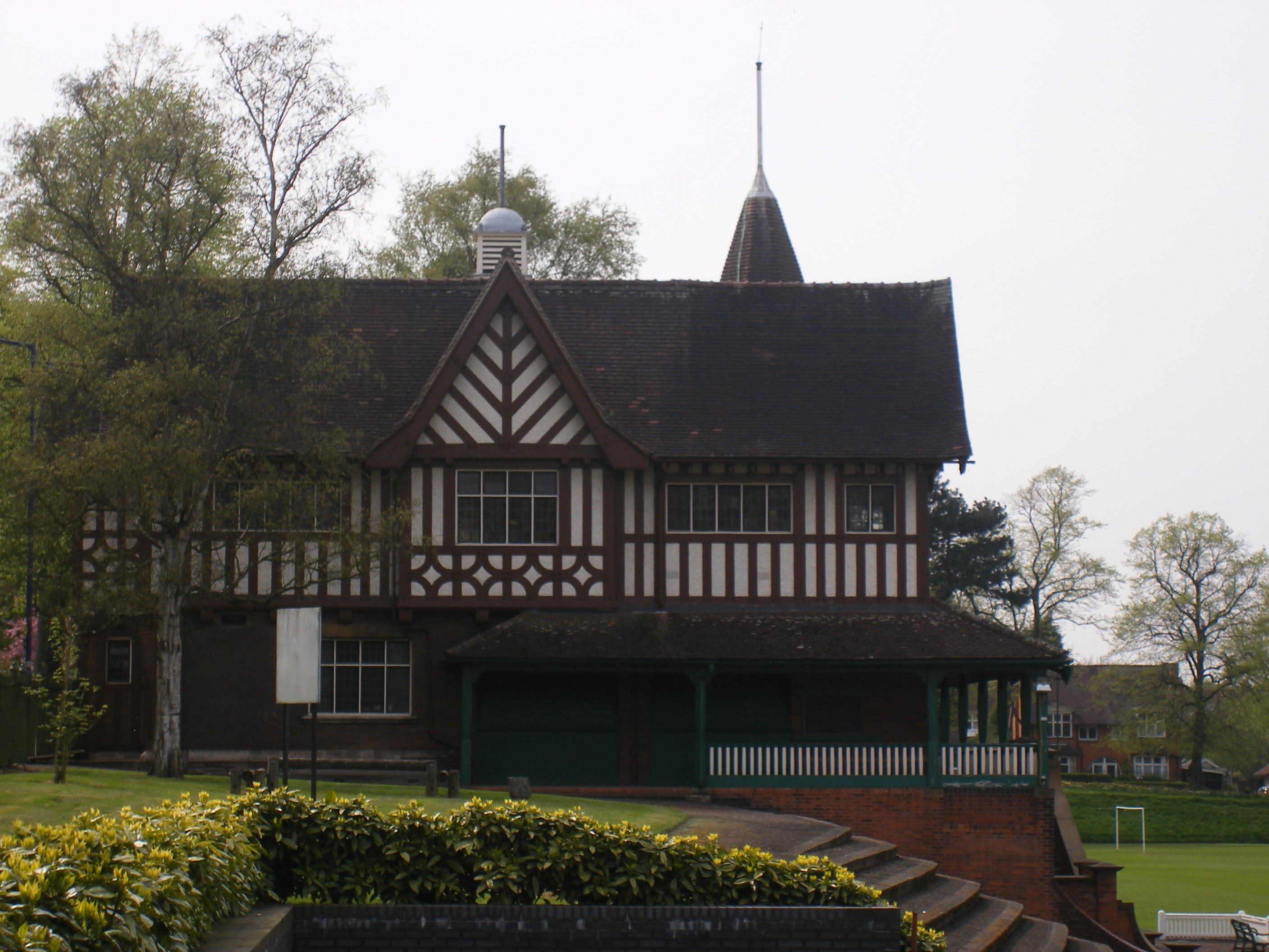 This is the Cadbury Cricket Pavilion. It was opened in 1902. a gift to Bournville Cricket Club to commemorate the coronation of King Edward VII, hence the name The Coronation Cricket Pavilion.